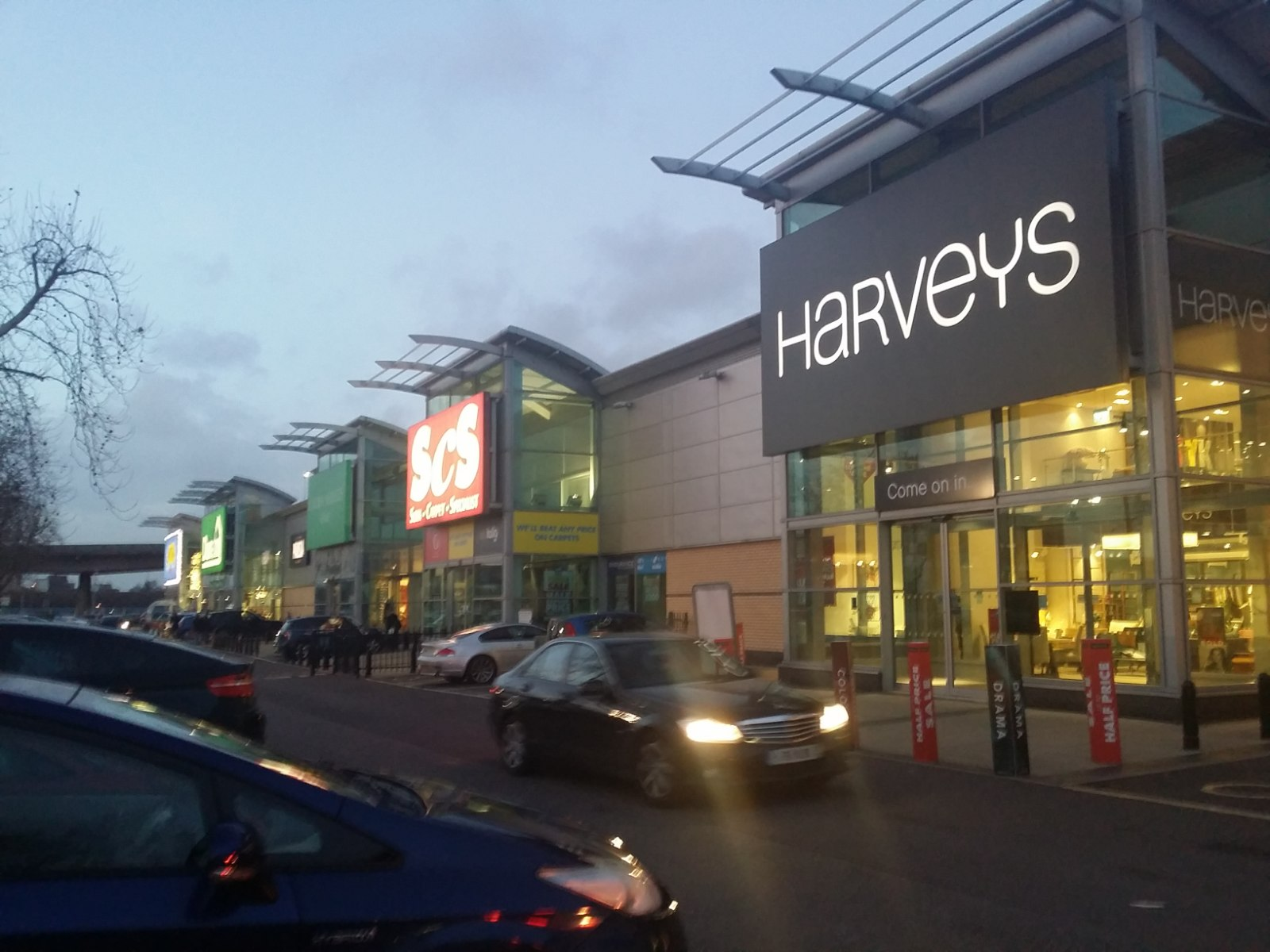 Staples Corner Retail Park, London NW2